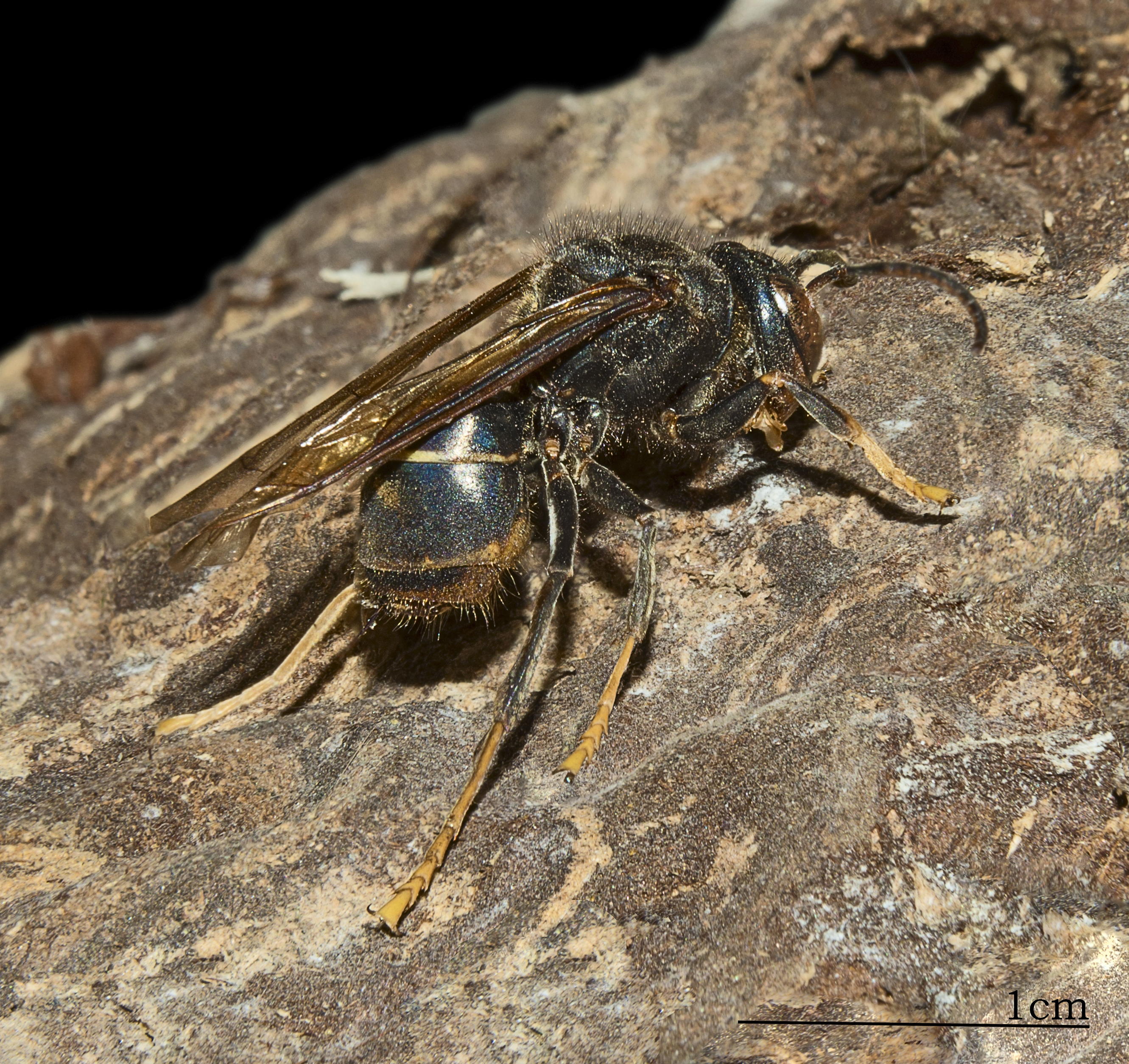 Vespa velutina nigrithorax - Working on its nest.